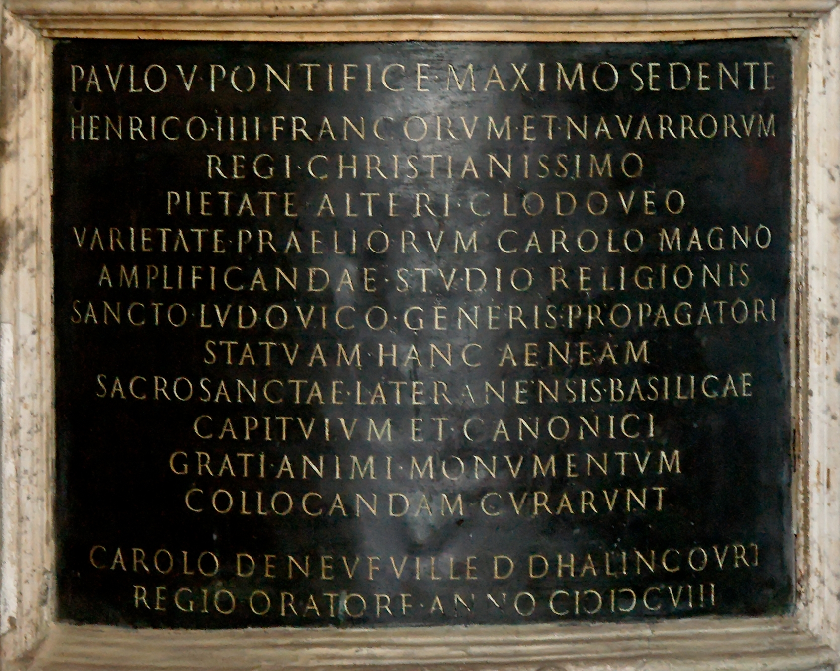 Inscription on the pedestal of a statue of Henry IV of France under the portico of the left transept, Basilica of St. John Lateran (Rome).